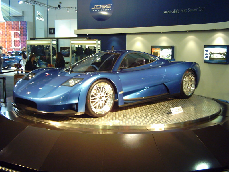 Photo of the JOSS Supercar at the 2004 Melbourne Motor Show.